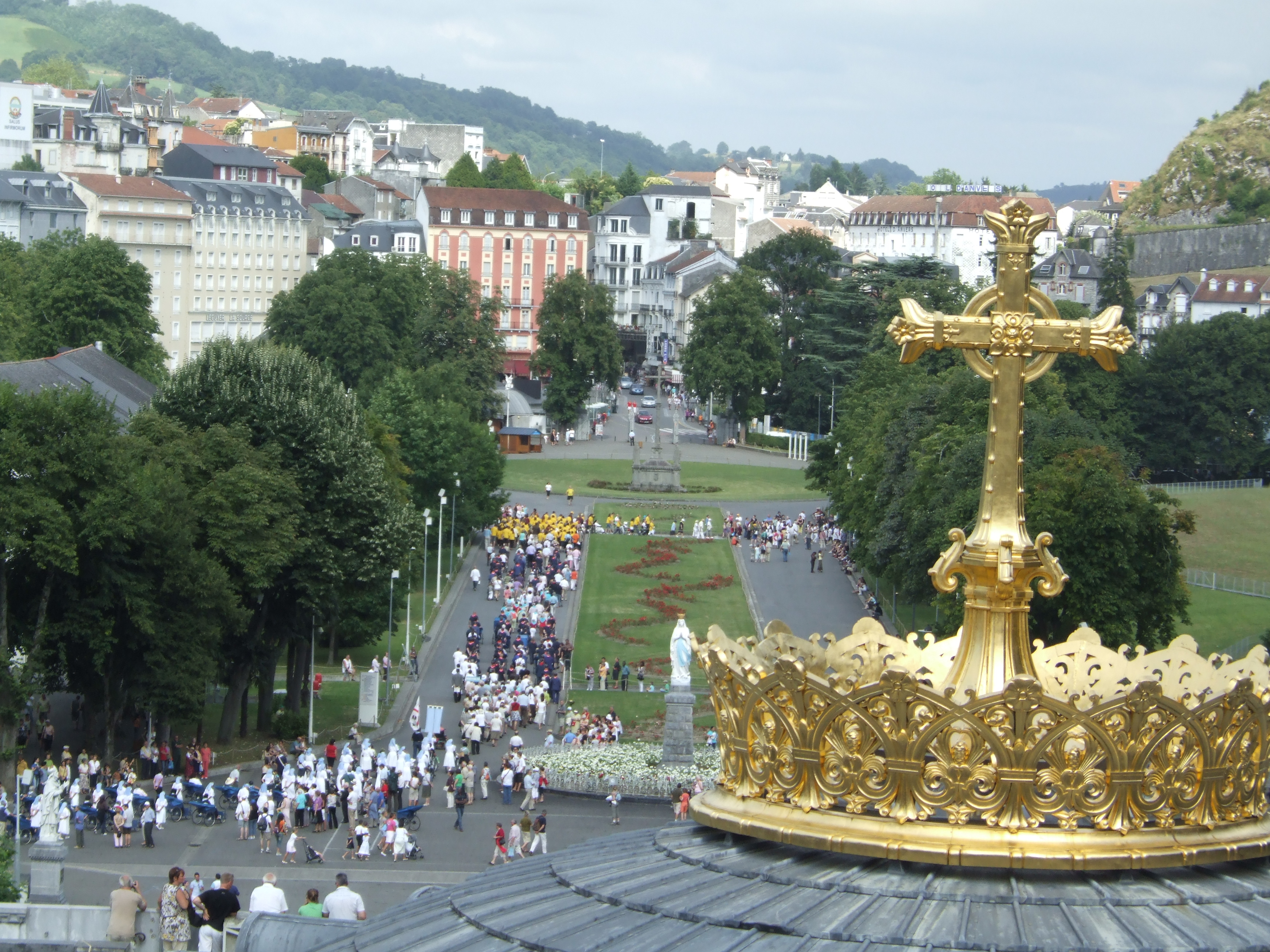 Beginning of the afternoon procession of sick persons in Lourdes